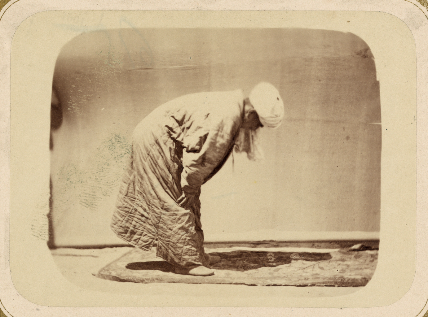 This photograph is from the ethnographical part of Turkestan Album, a comprehensive visual survey of Central Asia undertaken after imperial Russia assumed control of the region in the 1860s. Commissioned by General Konstantin Petrovich von Kaufman (1818–82), the first governor-general of Russian Turkestan, the album is in four parts spanning six volumes: “Archaeological Part” (two volumes); “Ethnographic Part” (two volumes); “Trades Part” (one volume); and “Historical Part” (one volume). The principal compiler was Russian Orientalist Aleksandr L. Kun, who was assisted by Nikolai V. Bogaevskii. The album contains some 1,200 photographs, along with architectural plans, watercolor drawings, and maps. The “Ethnographic Part” includes 491 individual photographs on 163 plates. The photographs show individuals representing the different peoples of the region (Plates 1–33); daily life and rituals (Plates 34–91); and views of villages and cities, street vendors, and commercial activities (Plates 92–163). Ethnographic photographs; Muslims; Photographic surveys; Prayer; Rites and ceremonies; Spiritual life; Turkic peoples